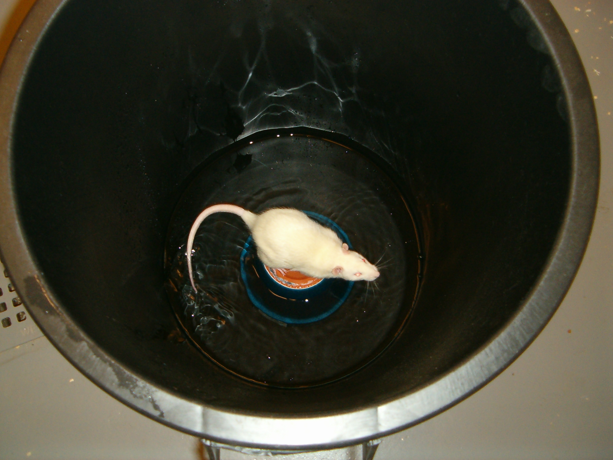 Rat sleep deprivation by the flower pot technique.